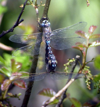 Pair of California Darners (Rhionaeschna californica). This pair is in the "wheel" position, with the male above. Five Brooks, Point Reyes National Seashore. Digi-scoped on a trip with Rich Stallcup.